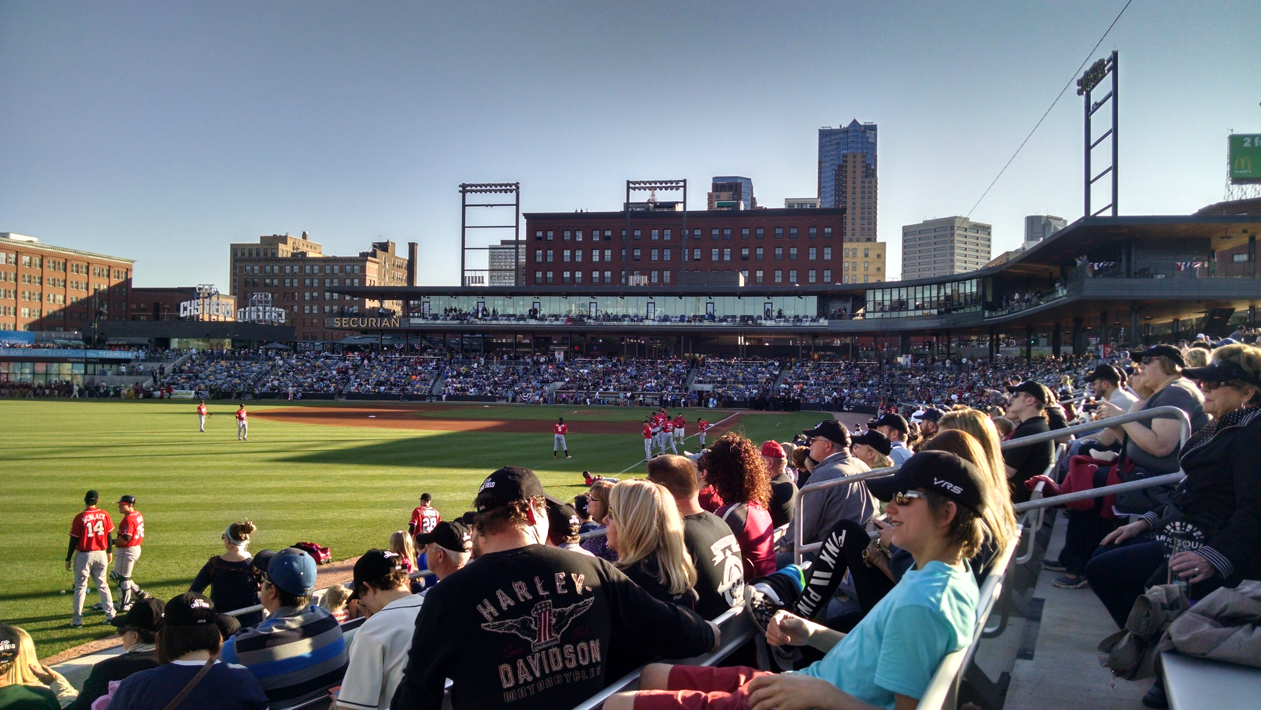 Photo taken of CHS Field prior to the inaugural regular season game. Downtown Saint Paul in the background.